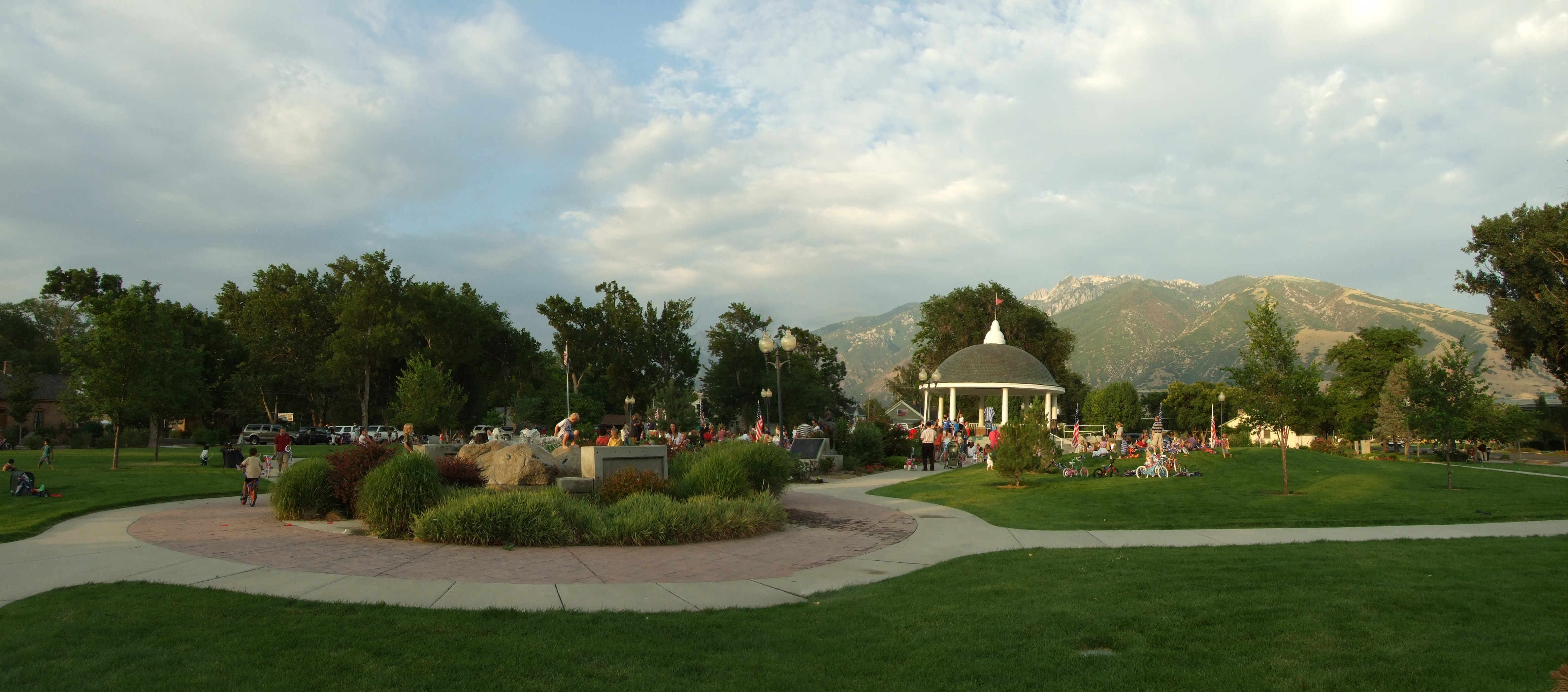 Draper Historic Park after the Draper Days Children's Parade. A magician is performing from the Gazebo. The Wasatch mountains are in the background. Stitch of two photos. July 15, 2008